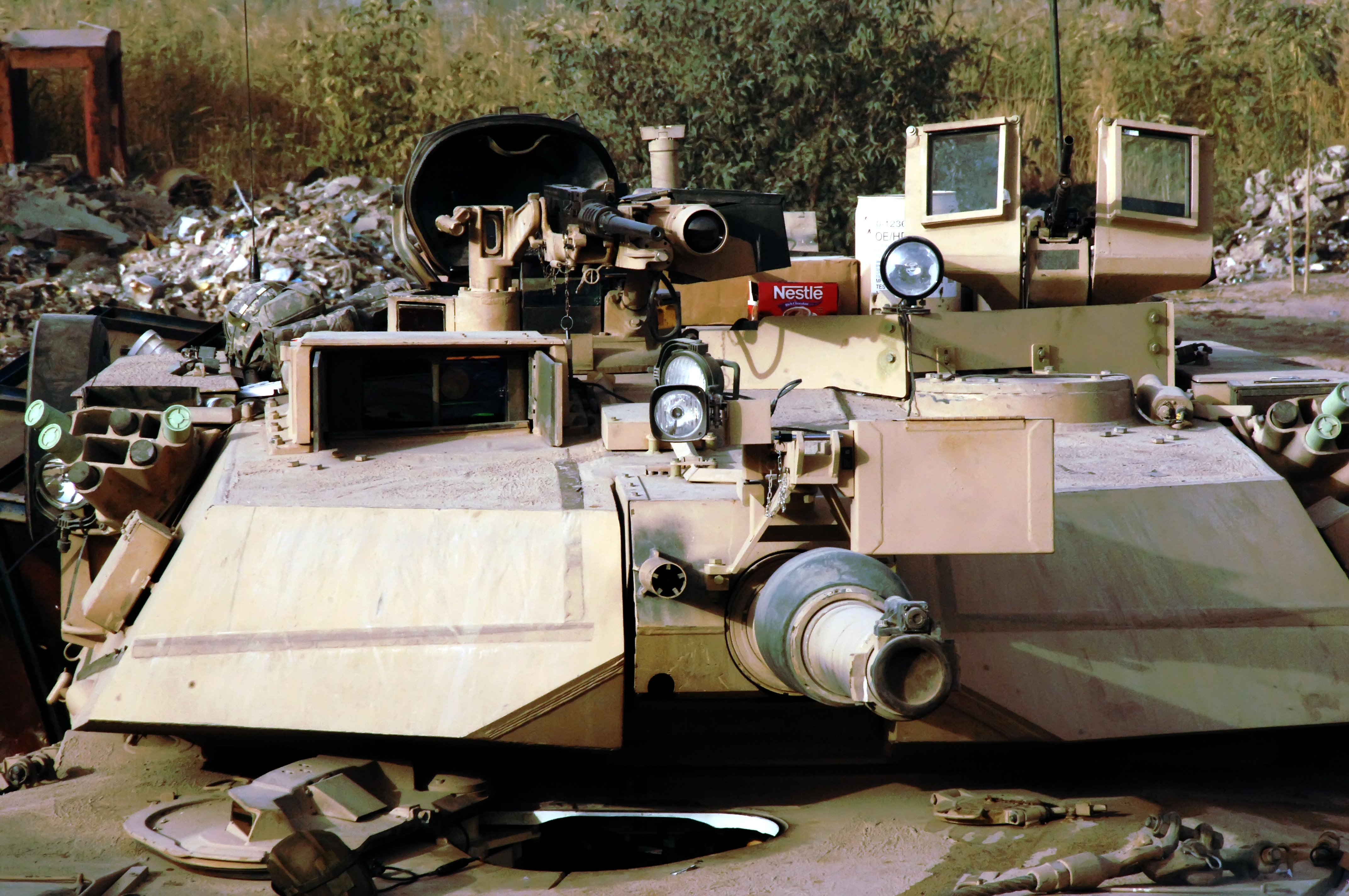 12/22/2007 - U.S. Army Soldiers in an M1A1 Abrams tank equipped with a recently updated tank urban survivability kit guard a joint Iraqi and American patrol base in Baghdad, Iraq, Dec. 22, 2007. (U.S. Army photo by Spc. Luke Thornberry) (Released)